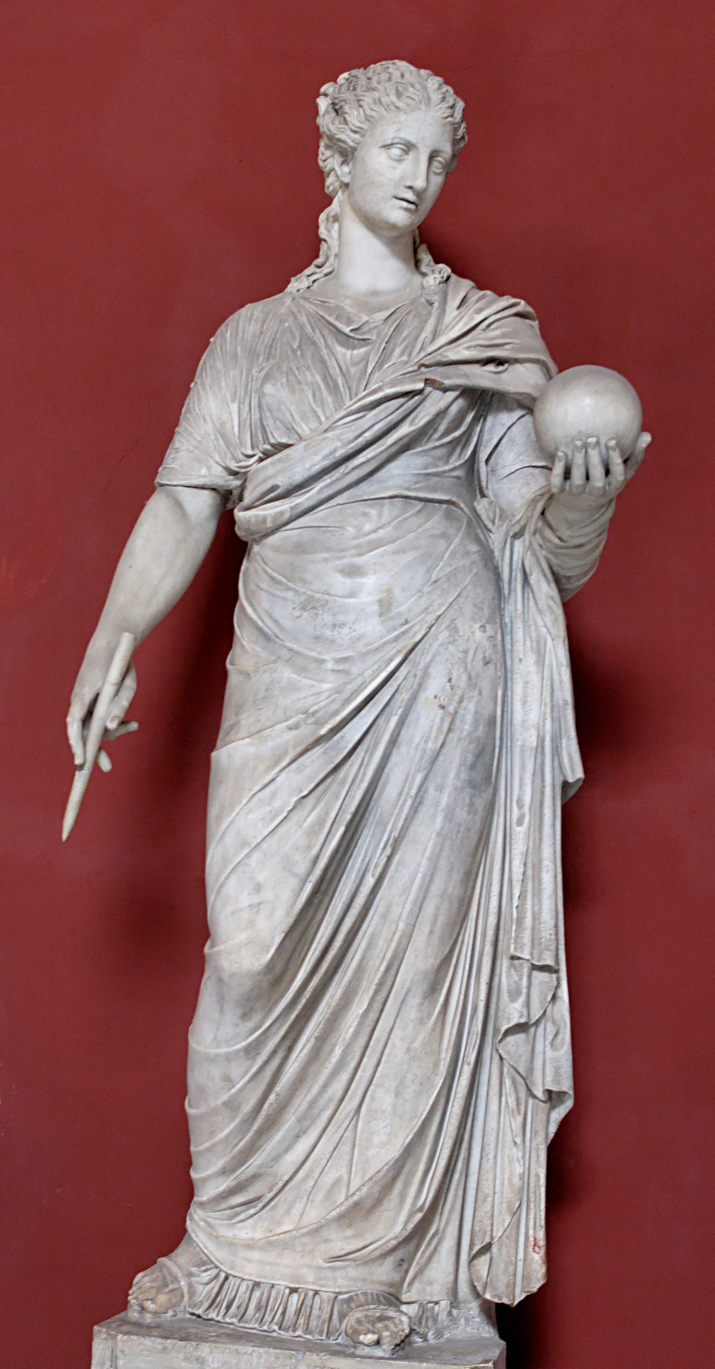 Urania, Muse of astronomy. Marble, head and torso: Roman copies after Greek originals from the 4th century BC, rest of the body: modern restoration. The head does not belong to the body. From the Villa Adriana near Tivoli, 1786 (head).